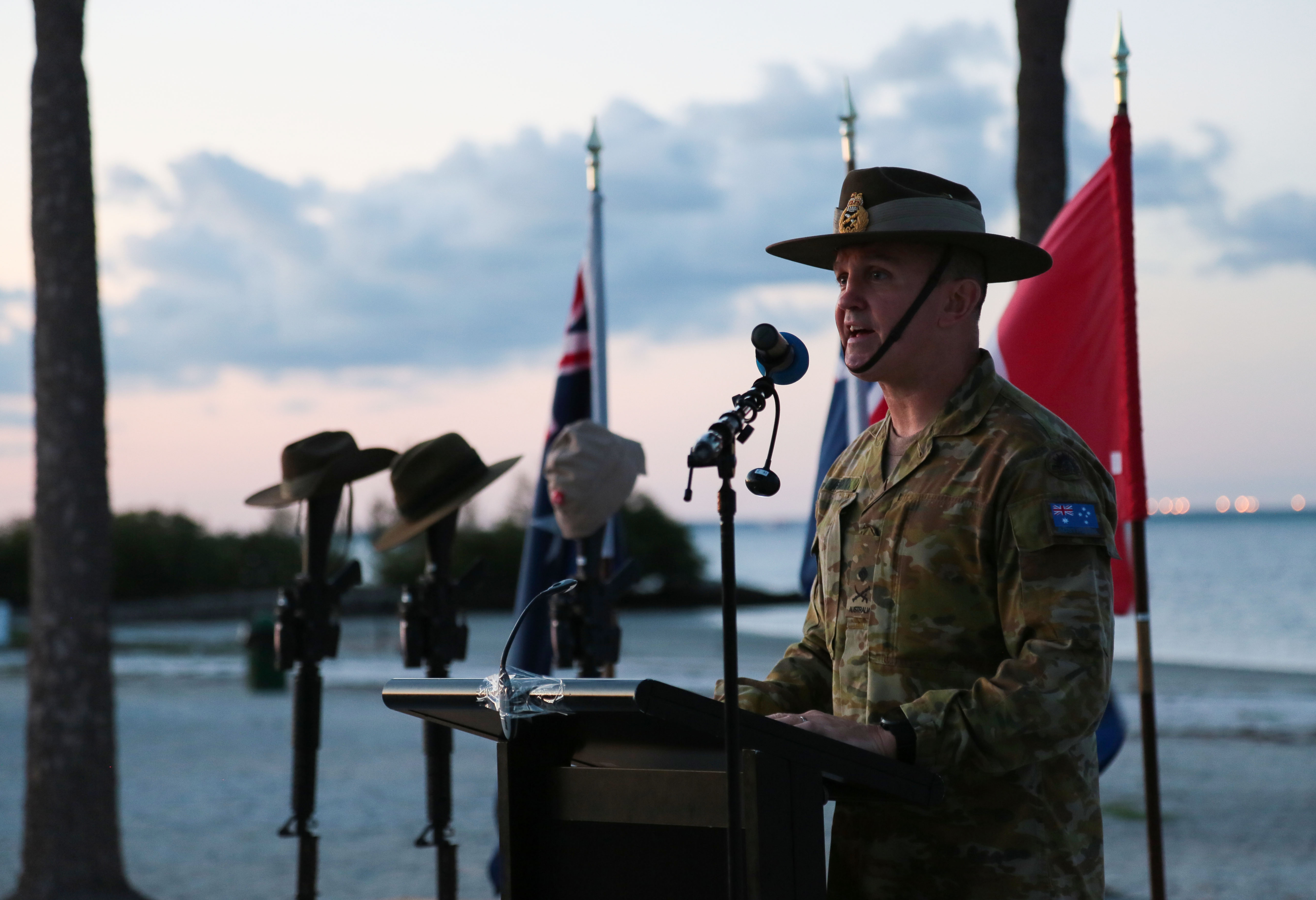 Australian Maj. Gen. Chris Field, vice director (CCJ3), U.S. Central Command, addresses attendees at an ANZAC Day a dawn service on the beach at MacDill Air Force Base, April 25. Personnel from U.S. Central Command, U.S. Special Operations Command, and other base commands attended the commemoration service that marks the anniversary of the military campaign on the Gallipoli Peninsula fought by Australian and New Zealand forces during World War I. ANZAC Day also commemorates the lives lost by Australians and New Zealanders during World War II and subsequent military and peacekeeping operations. (Photo by Tom Gagnier)